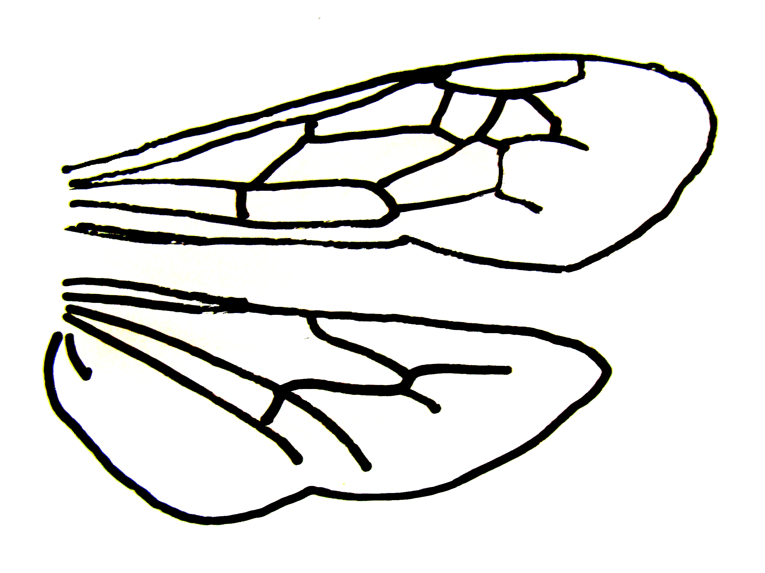 Astata_Astatinae Wing Venation.